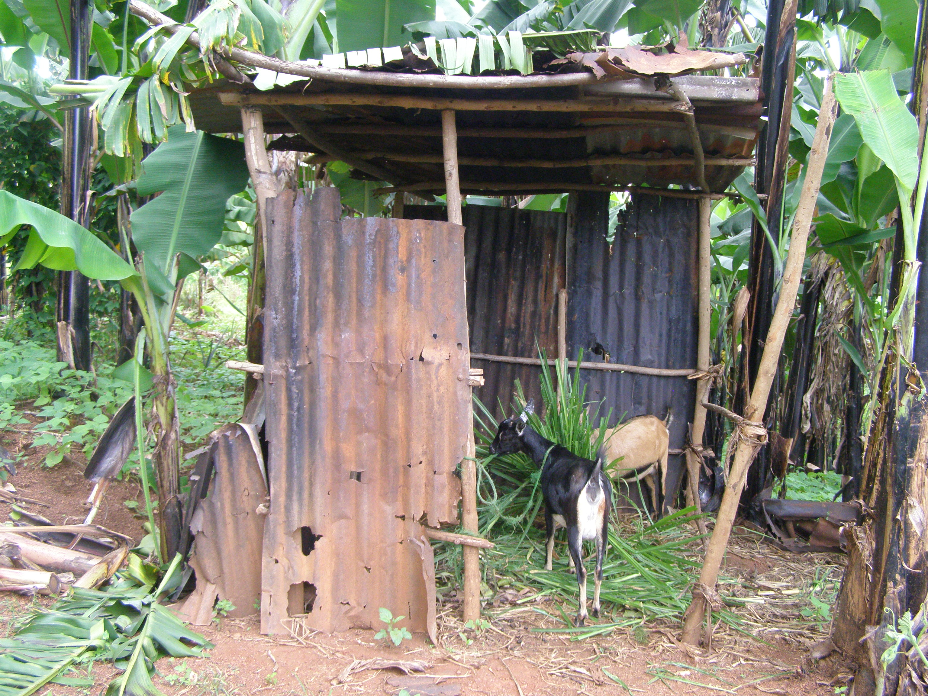 The goat shed owned by Rwandan women as part of a farm cooperative funded by micro-finance.